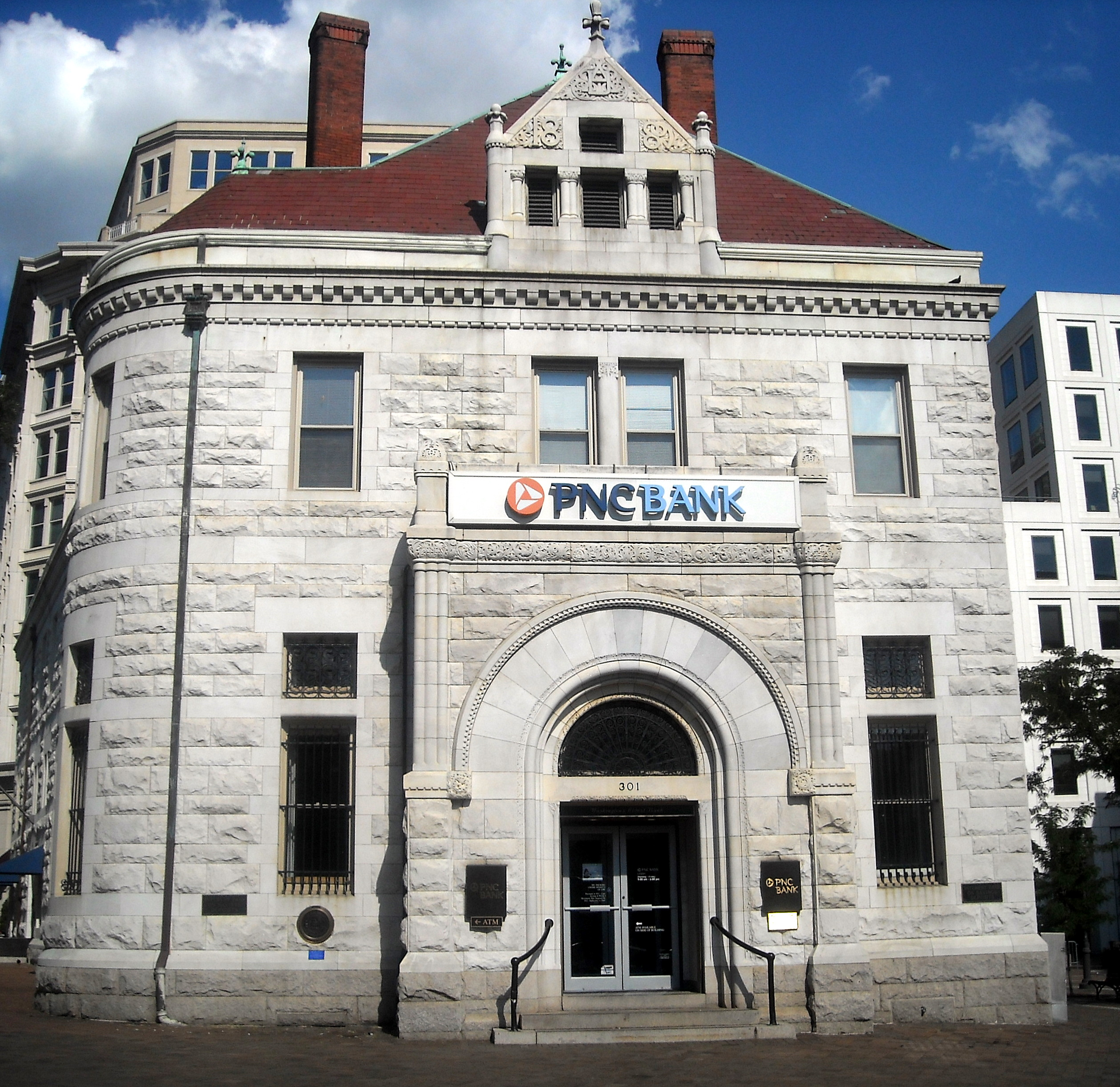 A PNC Bank branch, located at 301 7th Street, N.W., (between Indiana Avenue and Pennsylvania Avenue, N.W.), in the Penn Quarter neighborhood of Washington, D.C. The office of the Embassy of Argentina's naval attaché is located on the second floor; entrance to the Argentine Naval Attaché Building is located at 630 Indiana Avenue, N.W., on the north side of the bank. Built in 1889 by Daniel J. Macarty, the marble and granite, three-story, Richardsonian Romanesque bank was designed by prominent architect James G. Hill. From 1889 to 1954, the building served as headquarters of the National Bank of Washington – founded in 1809, dissolved in 1990. After the main office was moved to 621 14th Street, N.W., the building was known as the Washington Office of the National Bank of Washington. From 1990 to 2005, the building served as a branch of Riggs Bank. The current owner resulted from the merger of Riggs Bank and PNC Financial Services. The Washington Office of the National Bank of Washington was listed on the National Register of Historic Places (NRHP) in 1974. The building is designated as a contributing property to the Downtown Historic District, listed on the NRHP in 2001, and the Pennsylvania Avenue National Historic Site, designated a National Historic Site in 1965. In addition, the building is designated as a D.C. Historic Landmark, listed on the District of Columbia Inventory of Historic Sites in 1968.